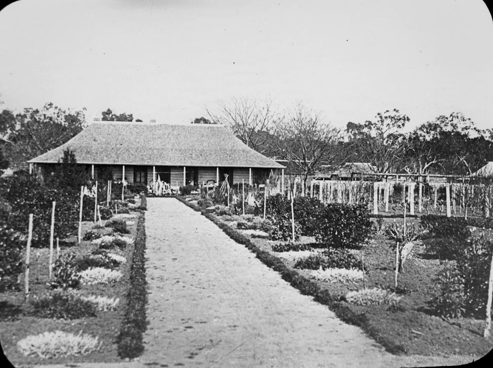 Creator: Unidentified Location: Western Creek, Queensland Description: This image was reproduced from a glass slide. The gardens leading up to the front entrance of the homestead. View this image at the State Library of Queensland: Information about State Library of Queensland’s collection